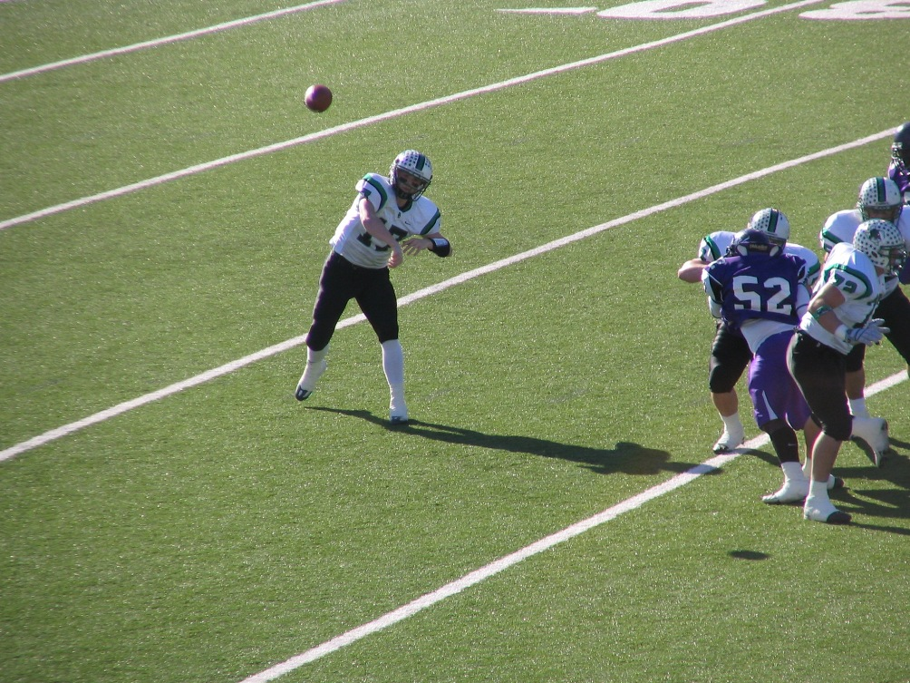 Greg McElroy, quarterback of Carroll High School (Southlake, Texas) football team in 2005 in Texas High School Semi-Final game vs. Lufkin High School.